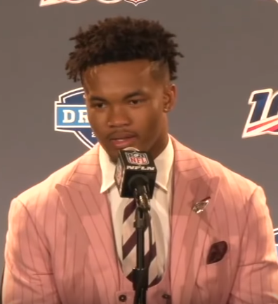 Kyler Murray in an interview after the NFL draft